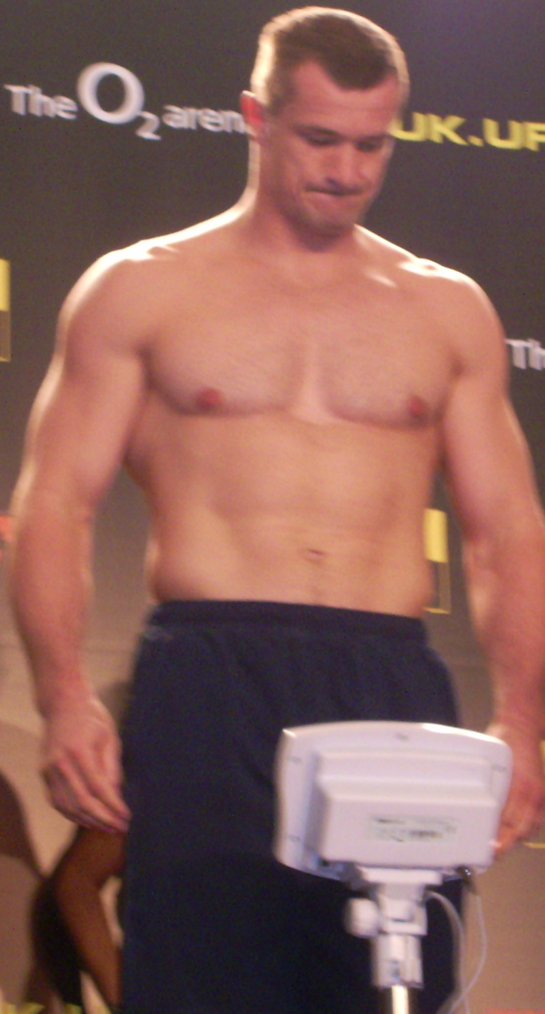 Mirko Filipović, often billed as Mirko Cro Cop